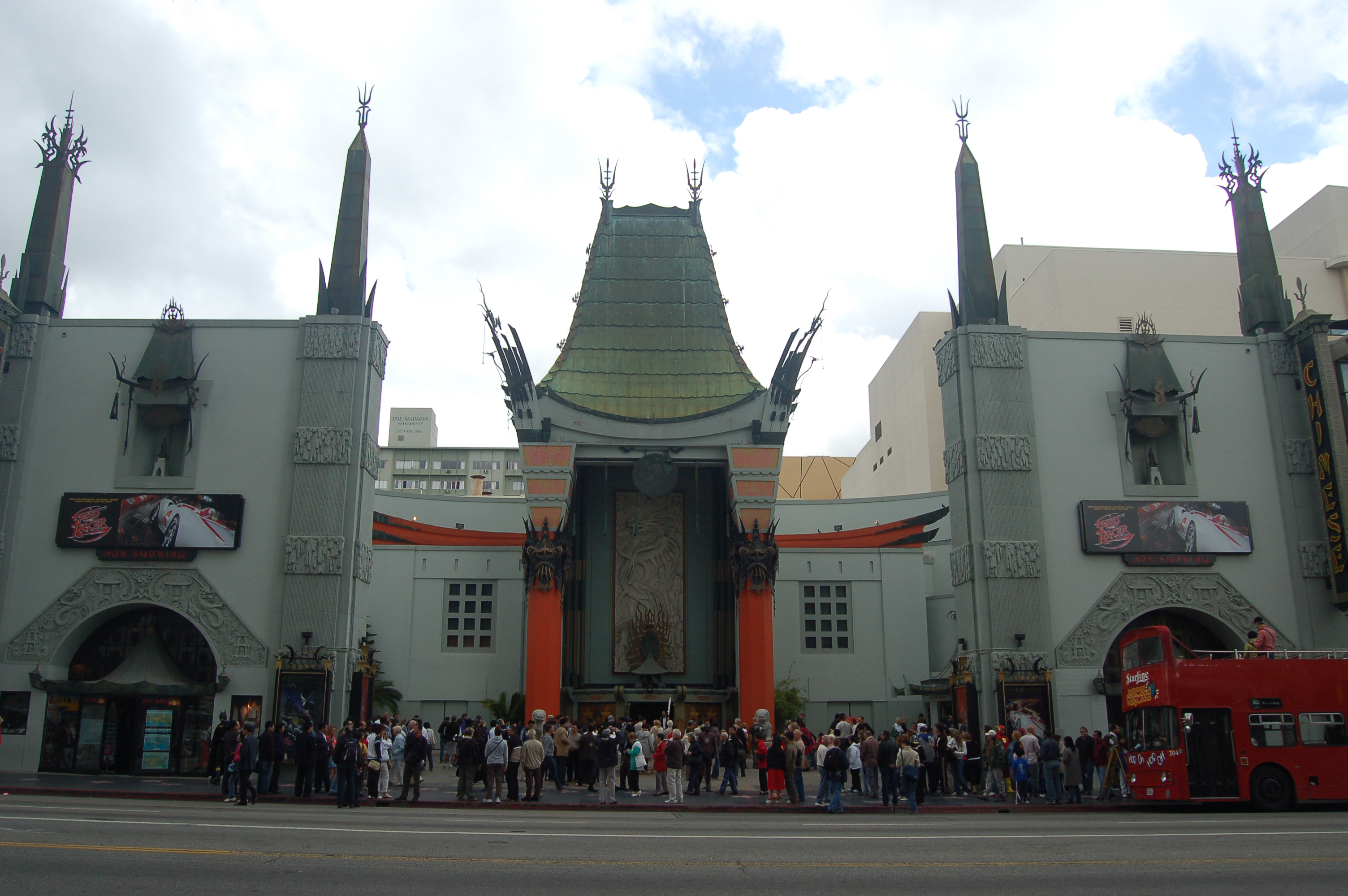 Grauman's Chinese Theatre